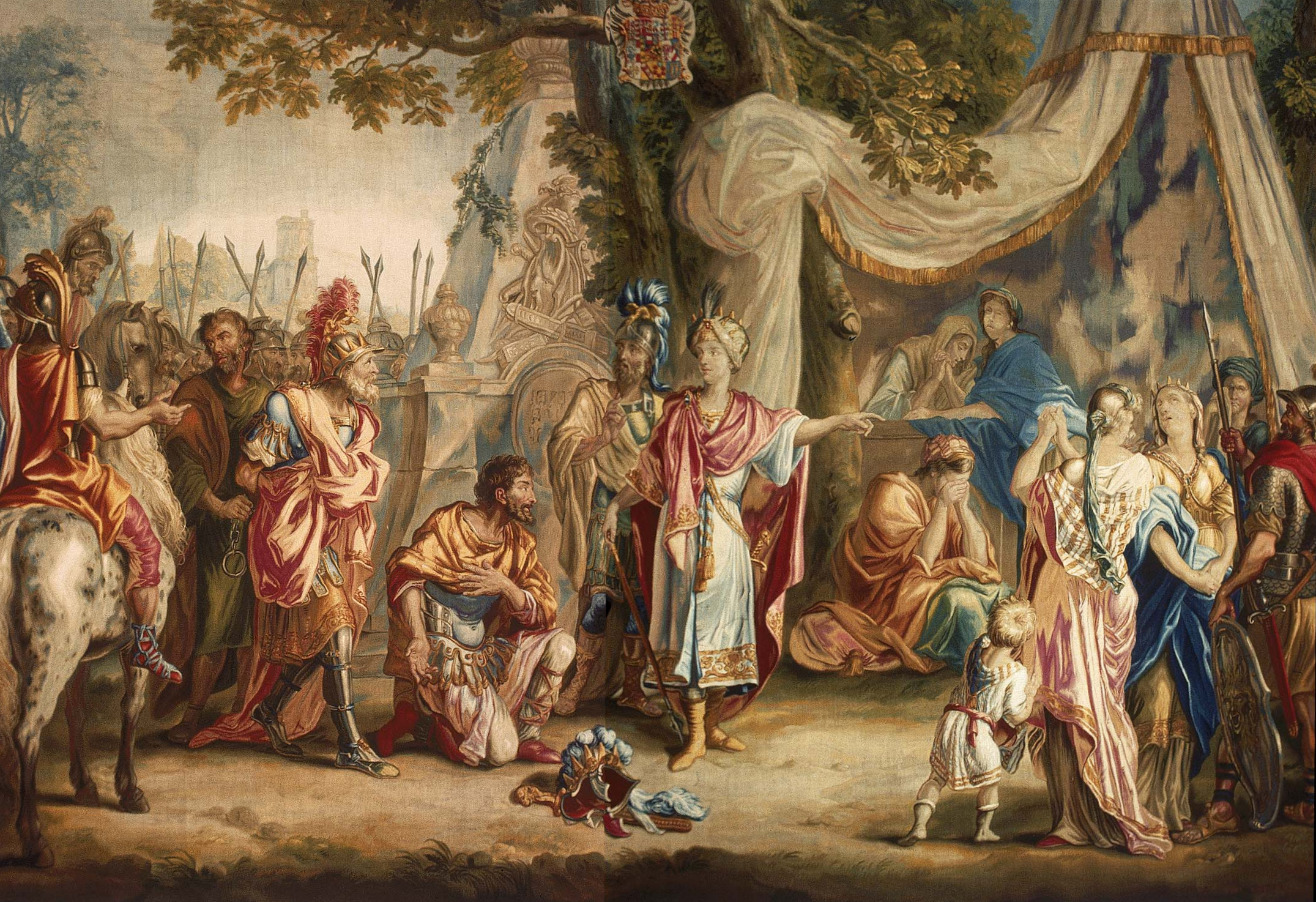 The Defeat of Astyages (complete)